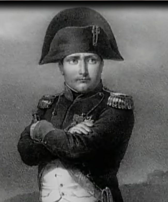 Napoleon Bonaparte